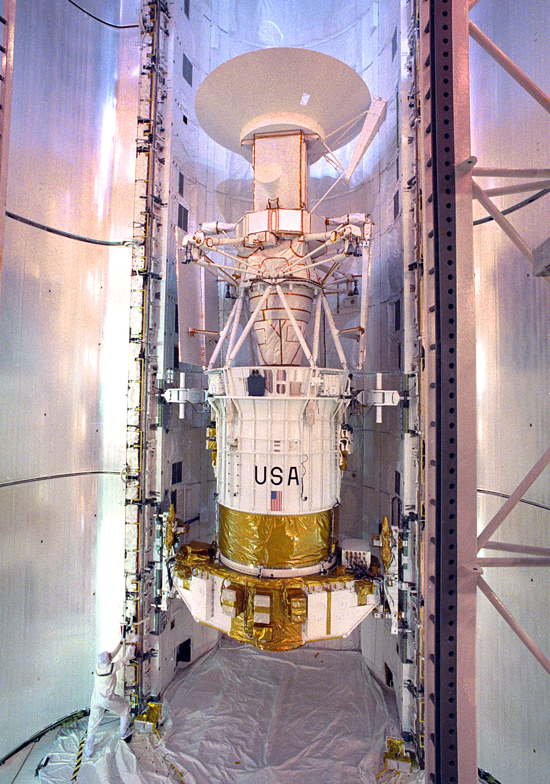 The Magellan spacecraft with its attached Inertial Upper Stage booster is in the orbiter Atlantis payload bay prior to closure of the doors at T-3 days to launch from pad 39B. Launch of Magellan and Space Shuttle Mission STS-30 is targeted for Friday, April 28, 1989. The 23 minute launch window opens at 2:24 p.m.